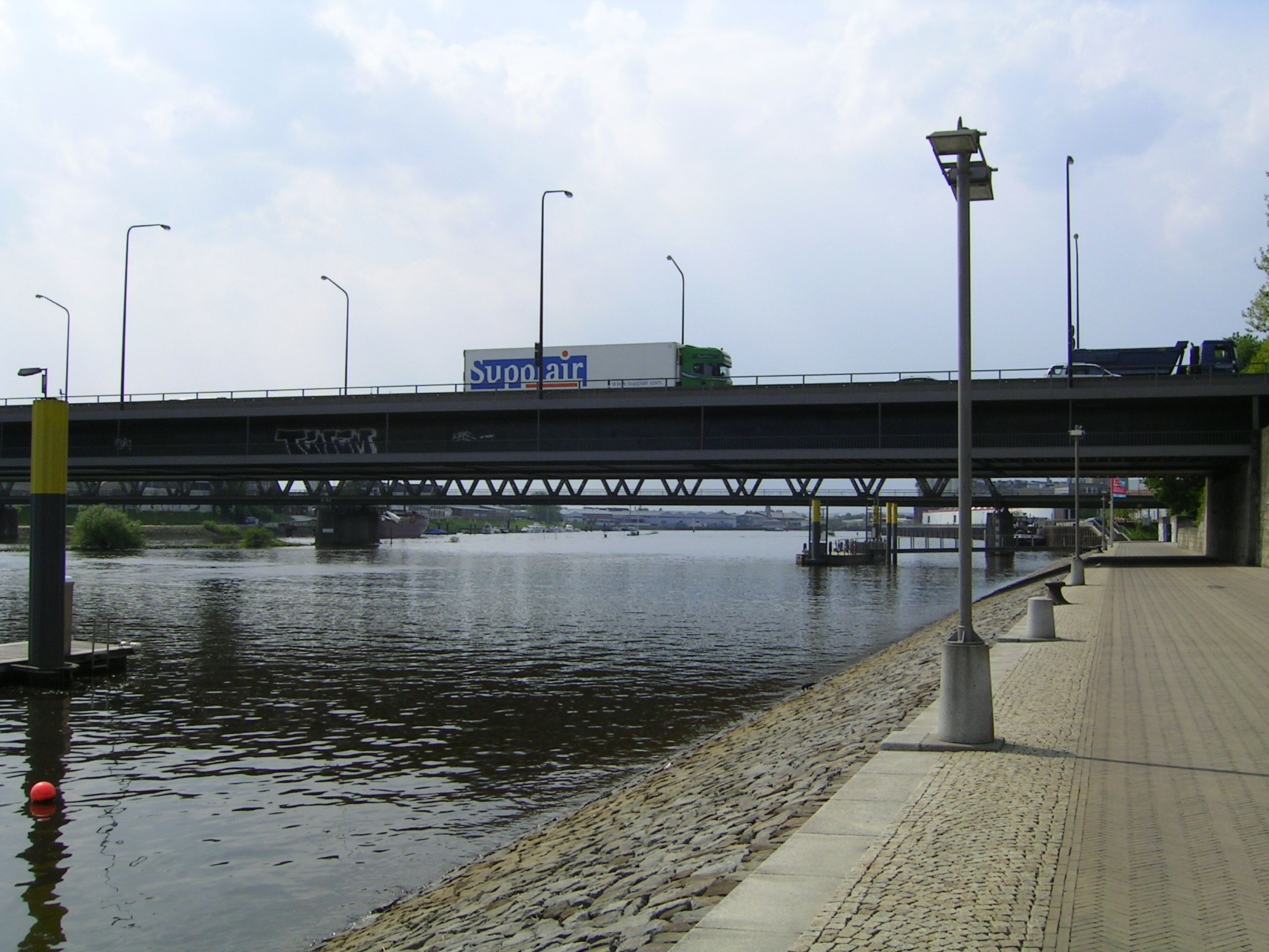 Weser River in Bremen city